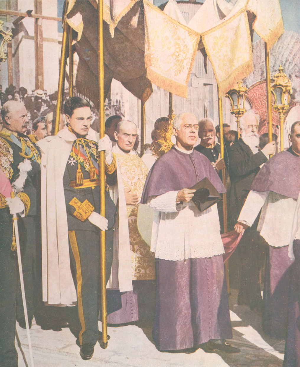 The Corpus Christi Procession in Lisbon, 10 June 1909. King Manuel II holds one of the rods of the pallium, and Anselmo Braamcamp Freire, Vice-President of the Lisbon City Hall (Republican), a honor reserved for the holder of his office. Behind the King, are Prince D. Afonso (his uncle), the Count of Sabugosa, and Councillor Wenceslau Lima, the President of the Council of Ministers.